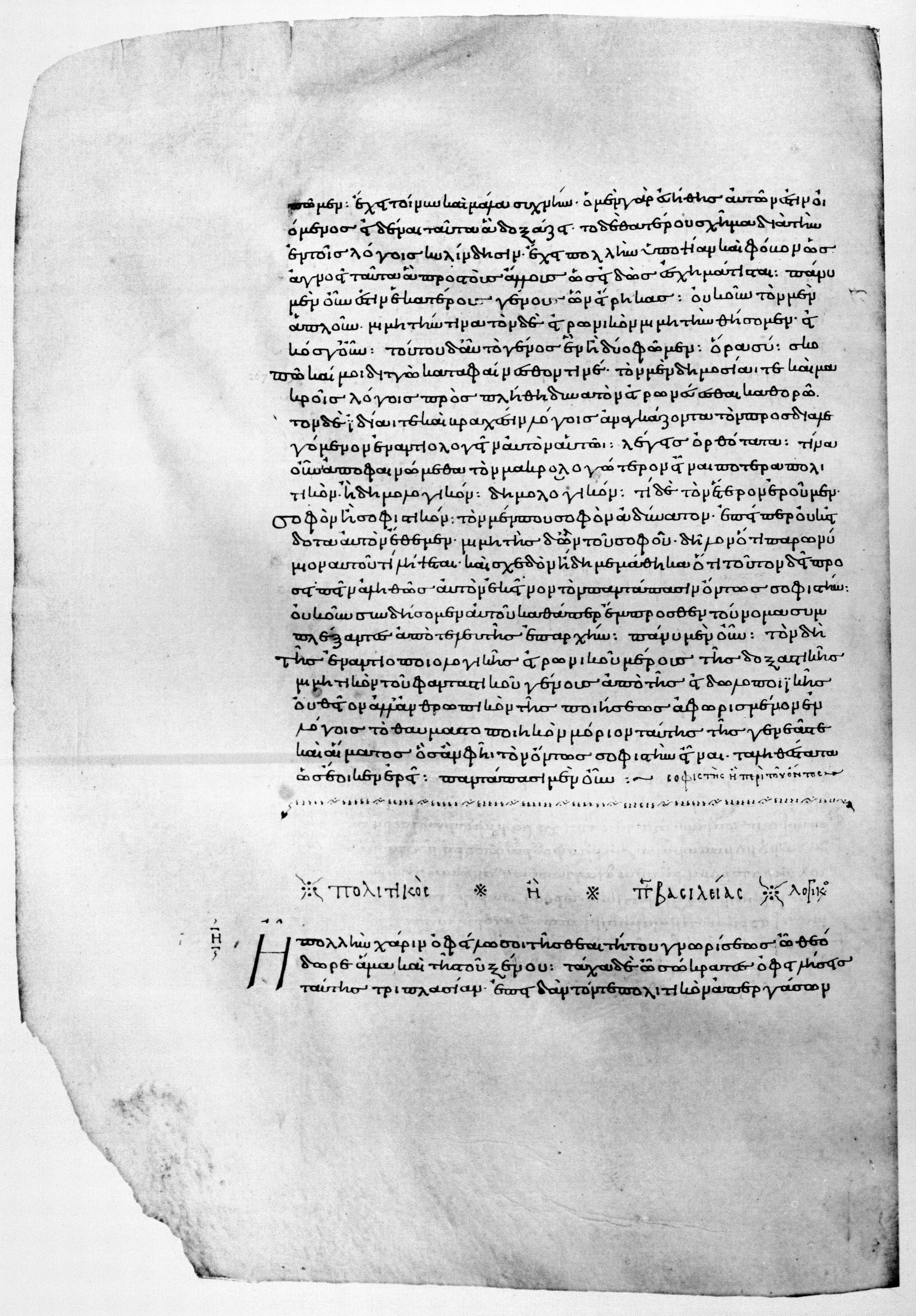 Page of the Codex Oxoniensis Clarkianus 39 (Clarke Plato). Dialogue Politikos.